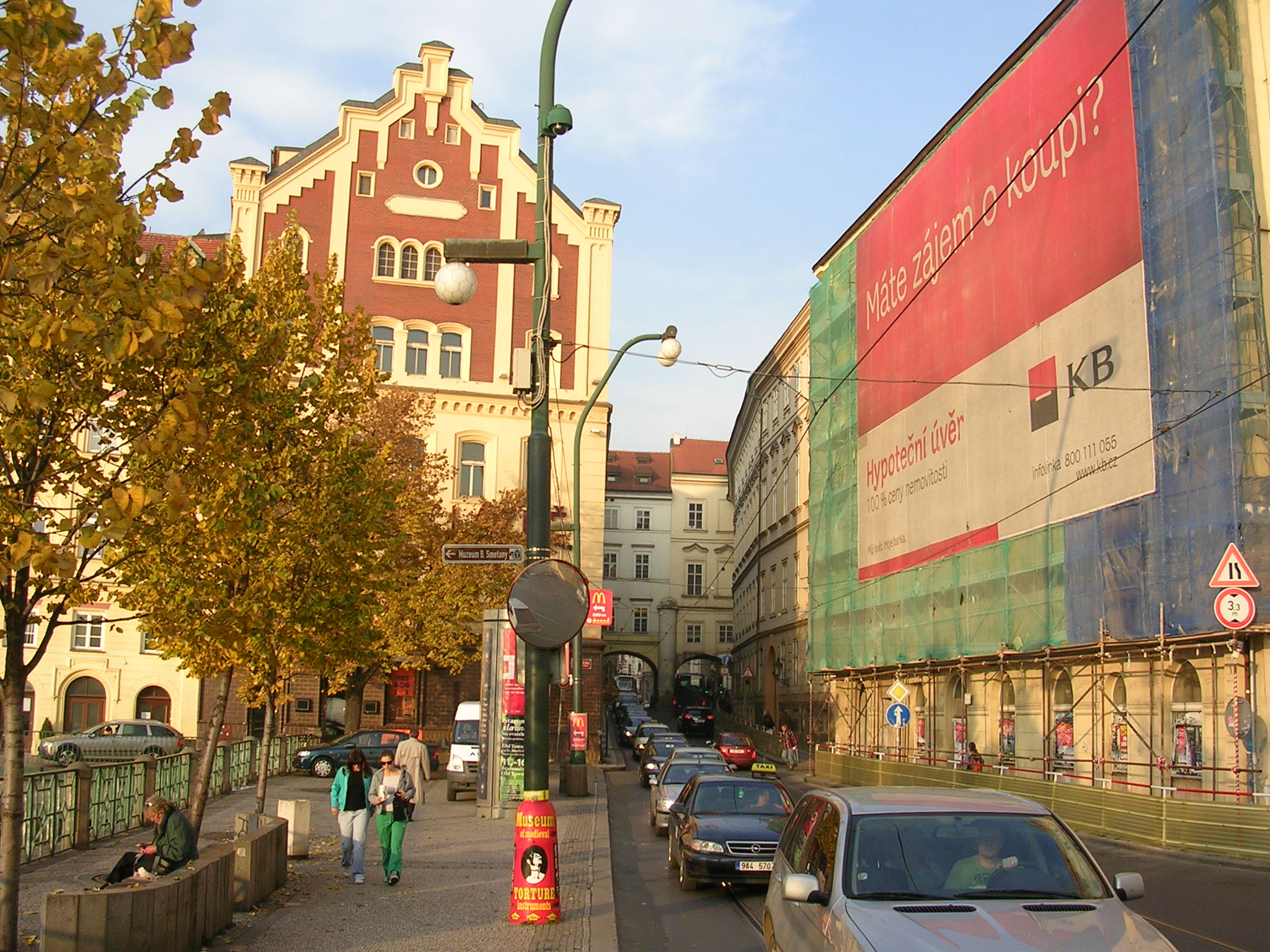 Old Town, Prague.